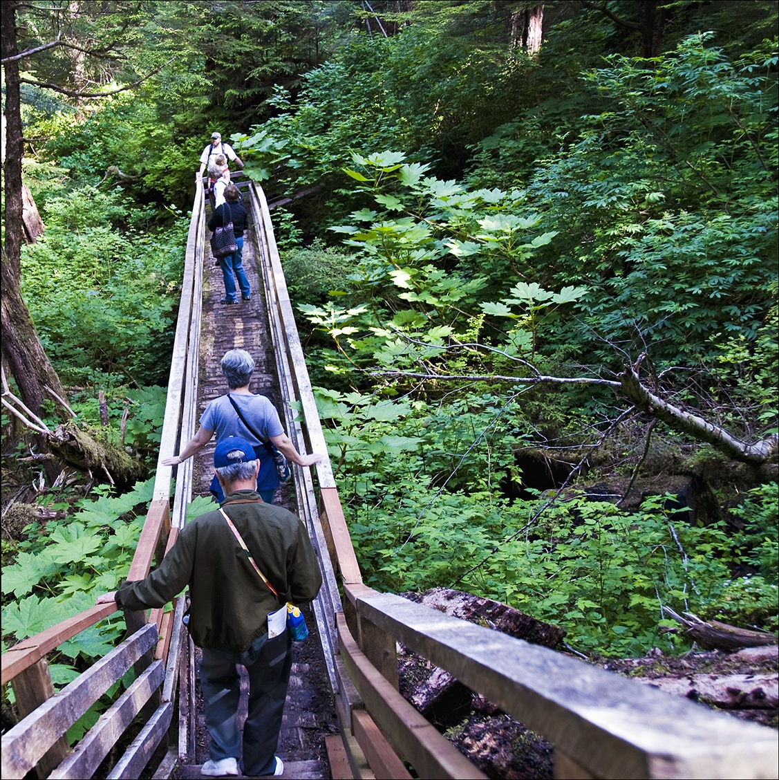 Tongass Rainforest